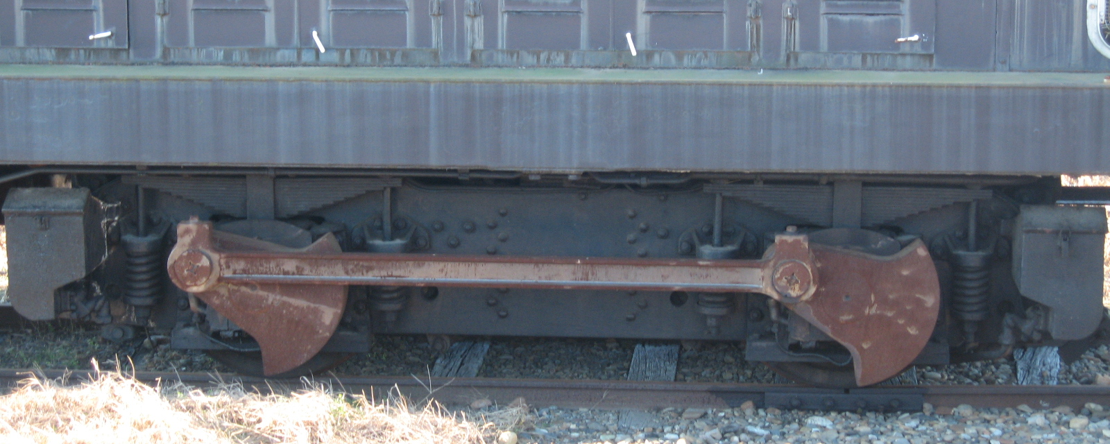 A bogie truck of the DD901 diesel locomotive of Kashima Railway.